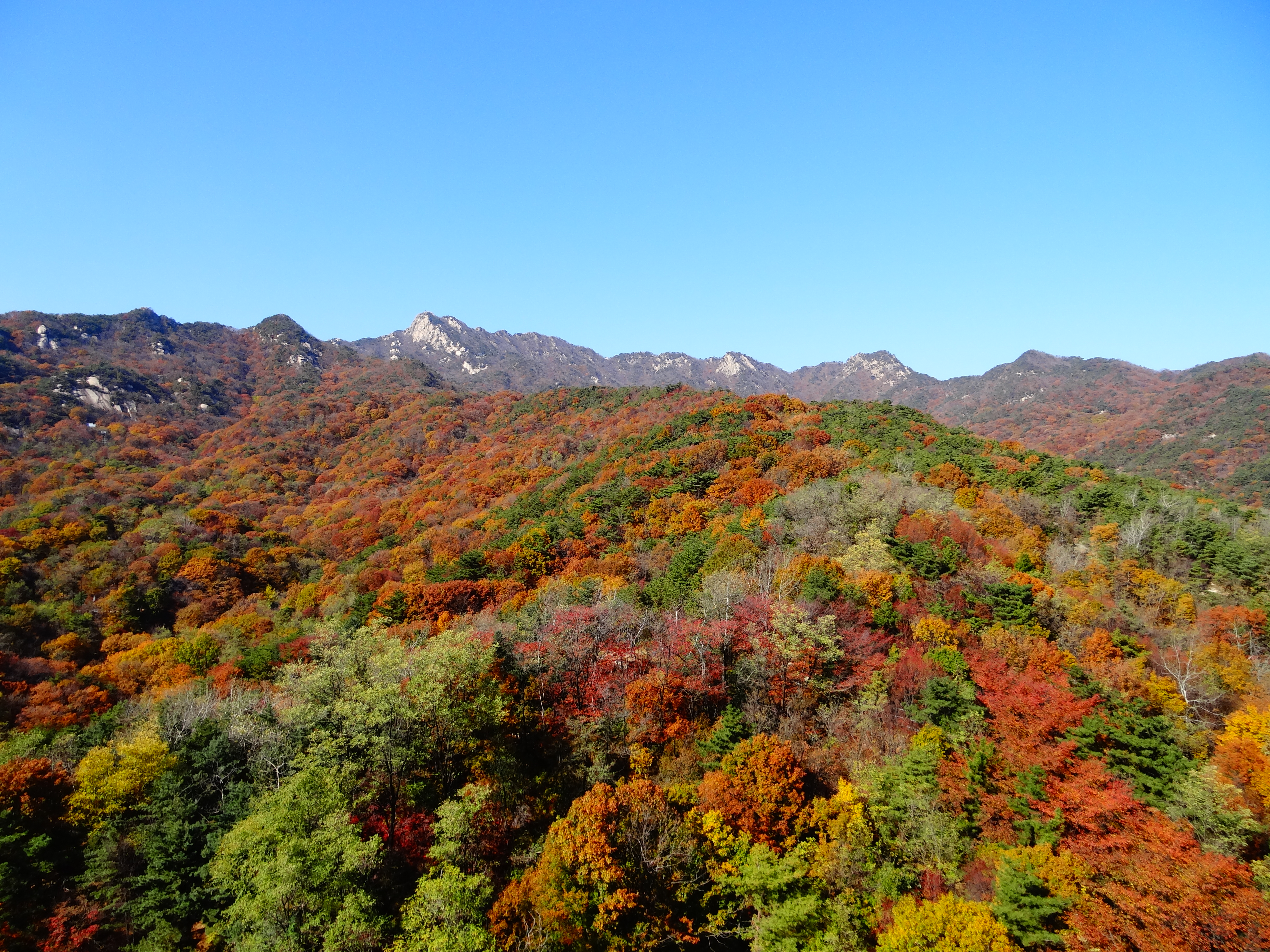 Landscape of Bukhansan with autumn leaves in September - from southern side. Taken in Sept. 2013 at Kookmin University. You can see Hyeongjae Peak and Bohyeon Peak on the left side, Seongdeok Peak in the middle, Kalbawi ridge on the right side of this picture.